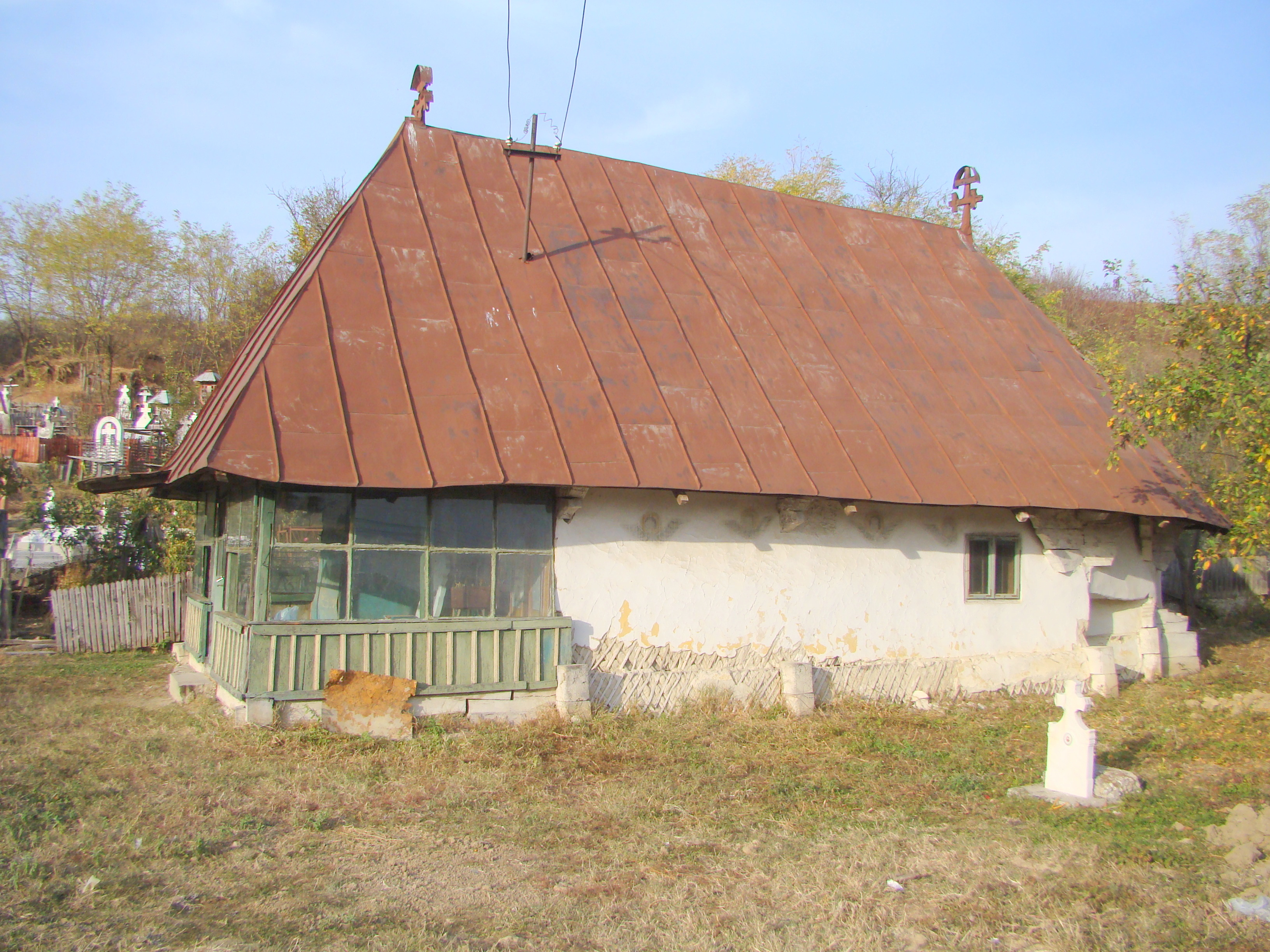 Wooden church in Piscuri, Gorj county, Romania